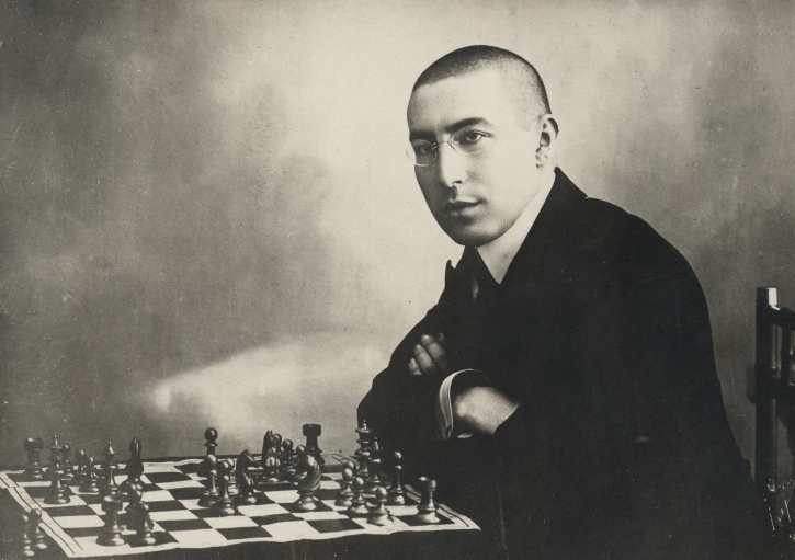 Akiba Rubinstein (1880–1961), Polish chess grandmaster.